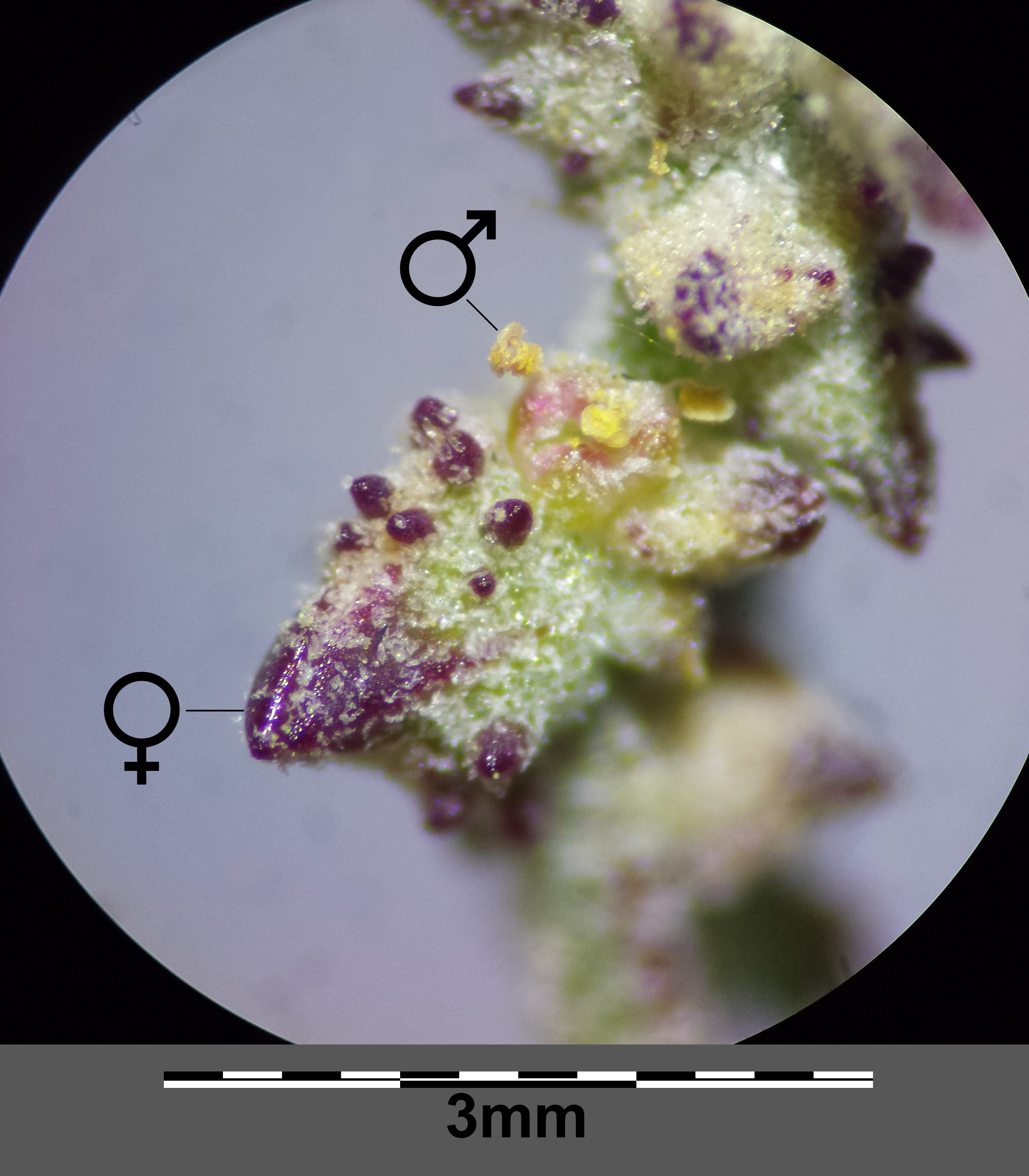 Inflorescence with female and male flower Taxonym: Atriplex patula ss Fischer et al. EfÖLS 2008 ISBN 978-3-85474-187-9 Location: Schwarzlackenau, Vienna-Floridsdorf - ca. 160 m a.s.l. Habitat: ruderal area